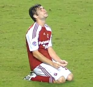 Brazil football player in Hong Kong